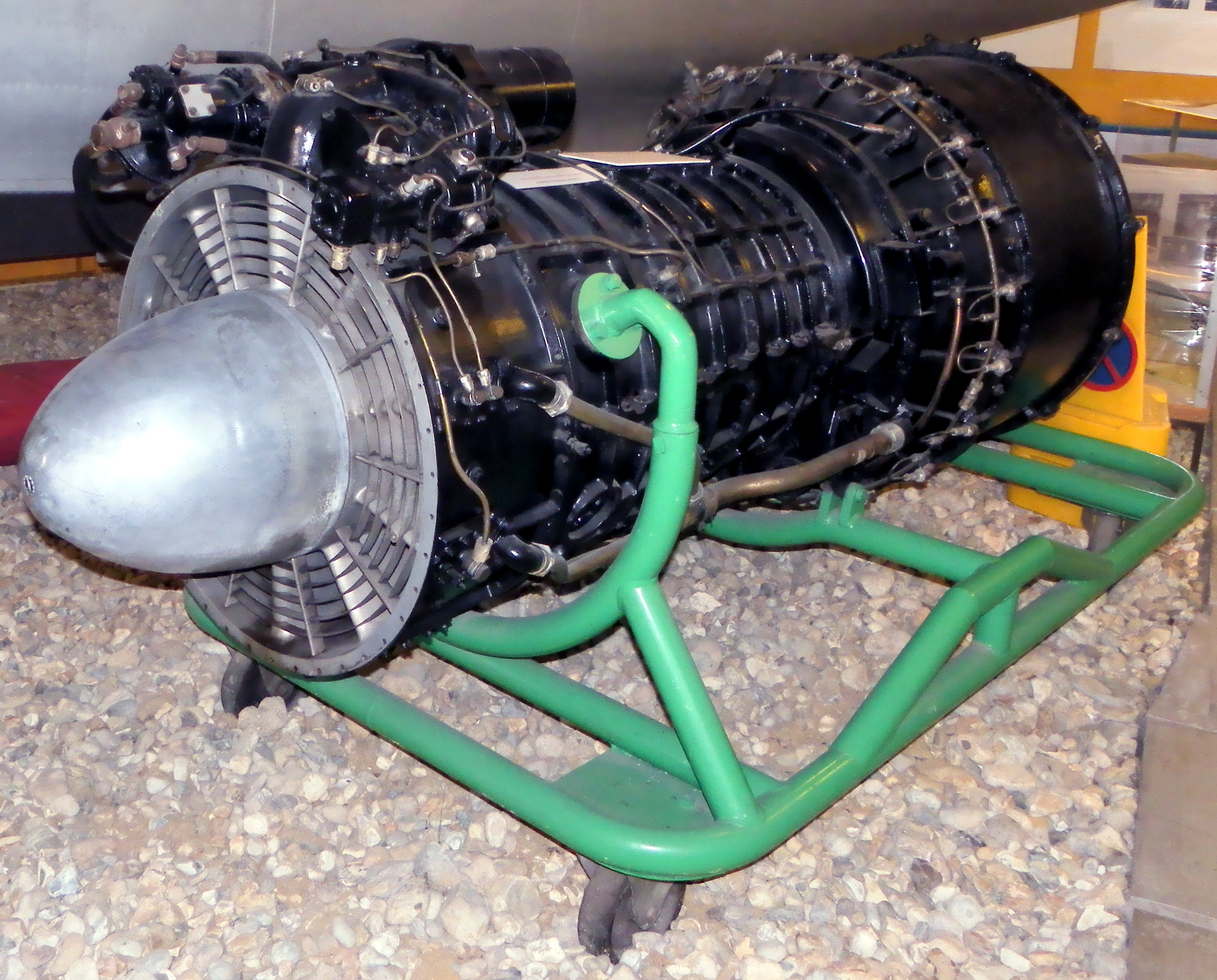 Metropolitan-Vickers Beryl turbojet engine, displayed in Solent Sky Museum in Southampton.